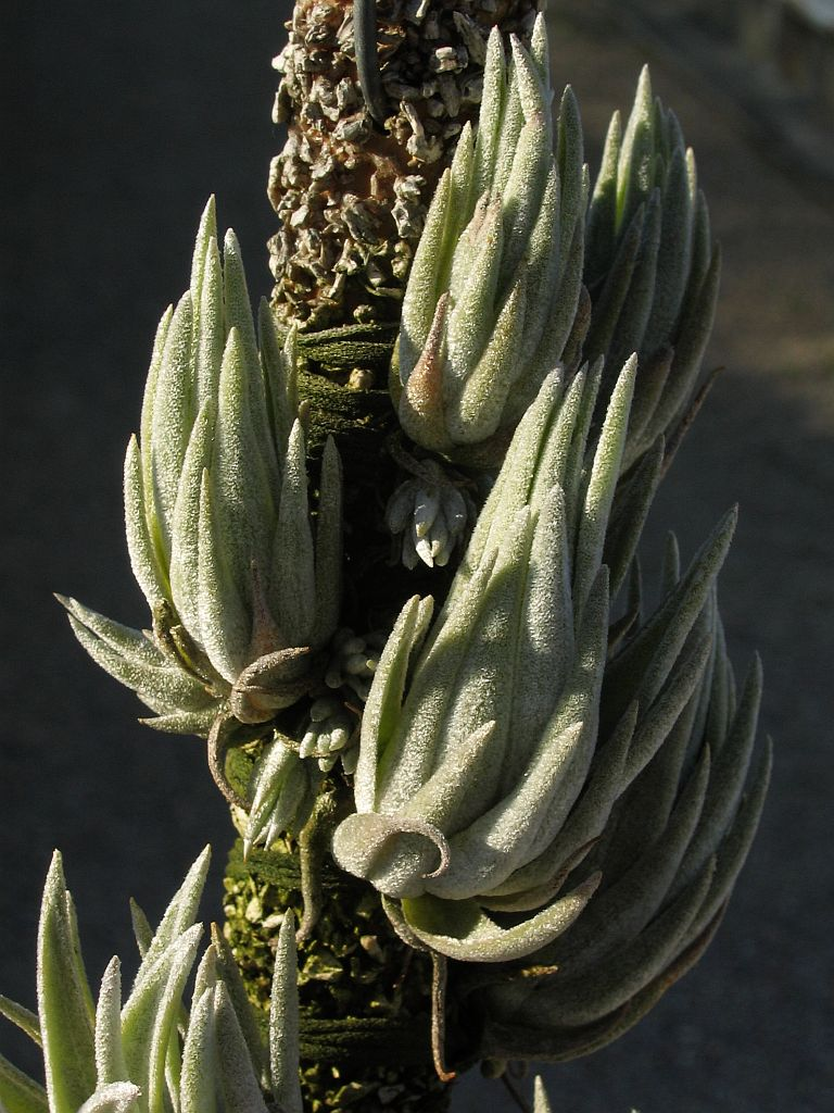 Tillandsia brachyphylla, in cultivation at the Botanical Garden of Heidelberg, Germany.